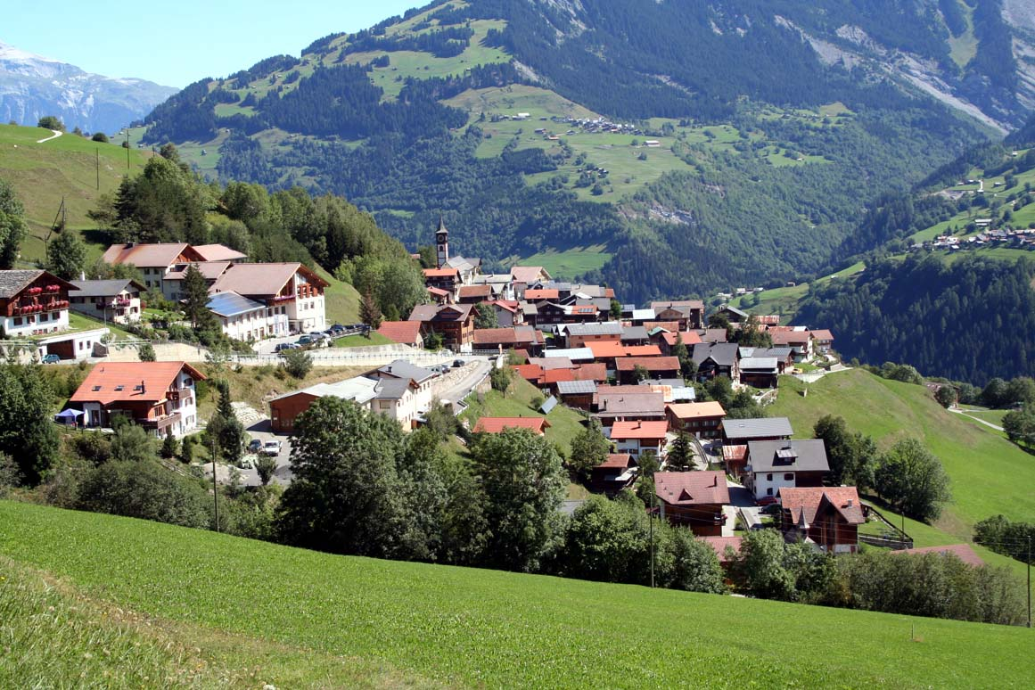 Cumbel